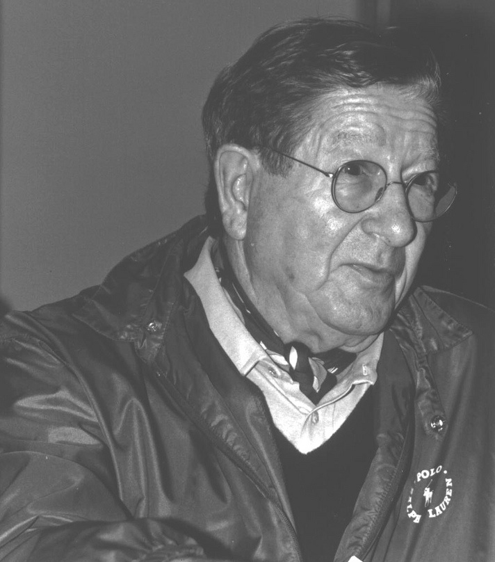 Jazz Composer/Producer Teo Macero, May 11, 1996 at the first Miles Davis Conference held at Washington University in St. Louis, MO.